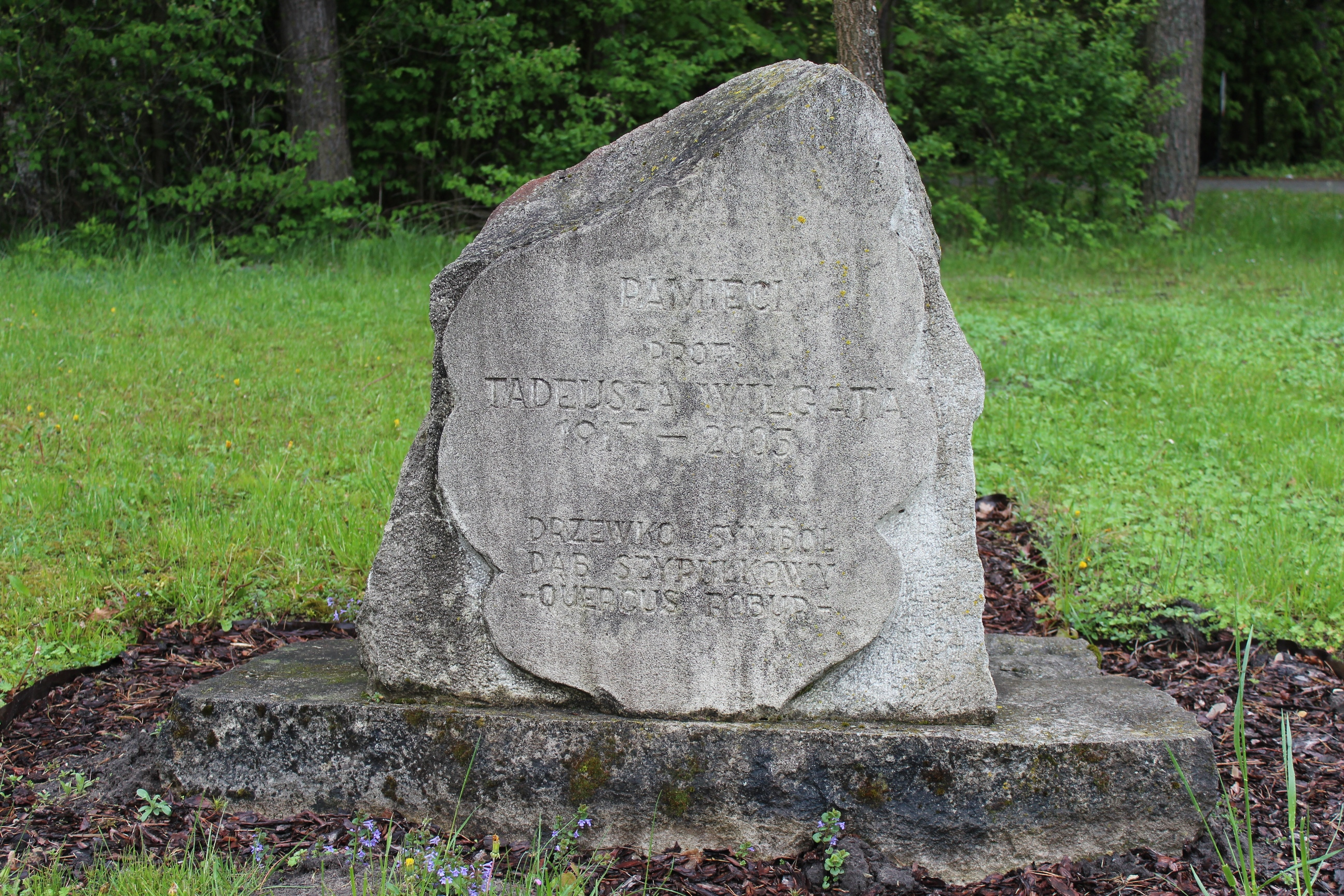 Roztocze National Park Educational Center and Museum